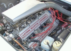 I am the author Photo taken 2004